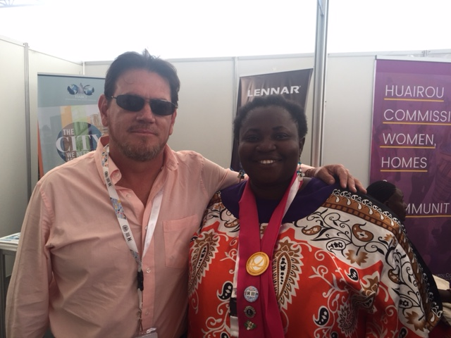 Primer contacto entre hombre de negocios ecuatoriano y mujer representante de comunidades en Etiopía